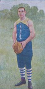 Cigarette card of Frank Hince dated 1903-1906